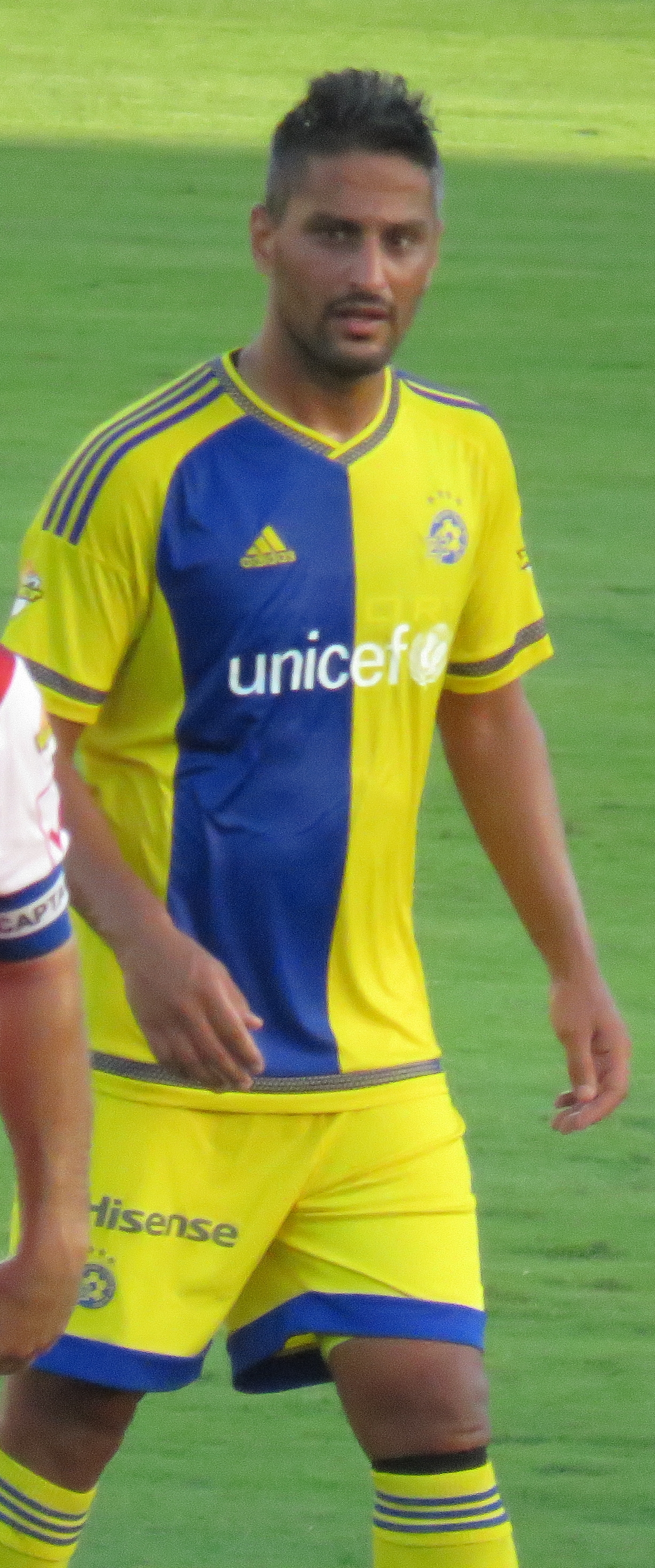 Maccabi Tel Aviv VS. Bnei Sakhnin 22/08/2015